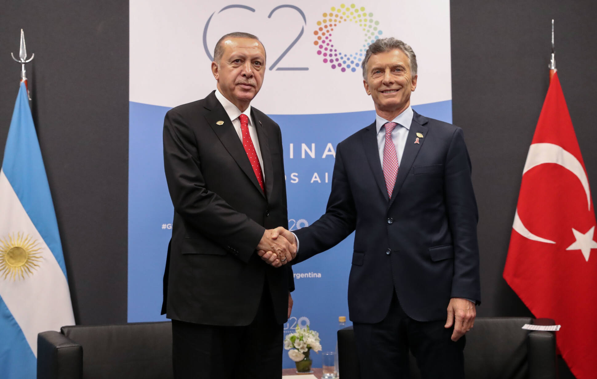 Erdoğan and Macri at the 2018 G-20 Buenos Aires summit.